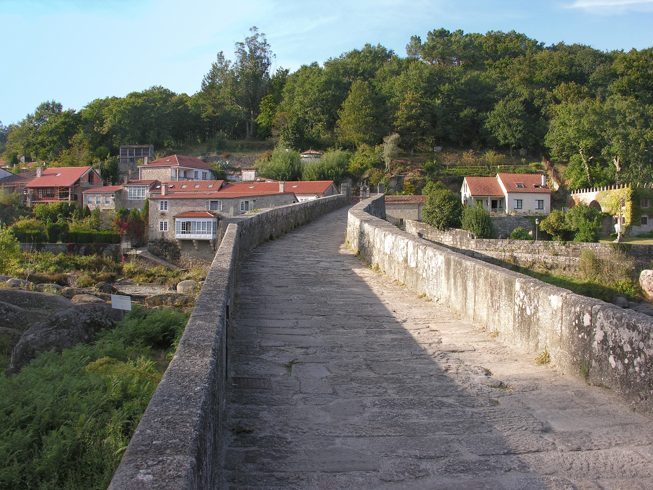 Portor, municipality of Negreira. Galicia